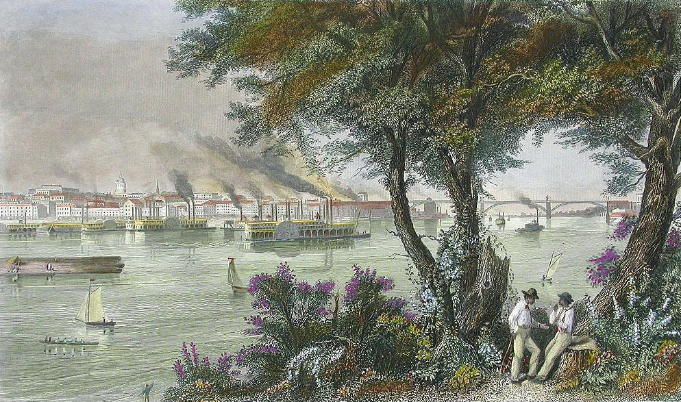 City of St. Louis, a steel engraving from a study by A. C. Warren, engraved by R. Hinshelwood and published in Picturesque America, D. Appleton & Company, New York, New York 1872.